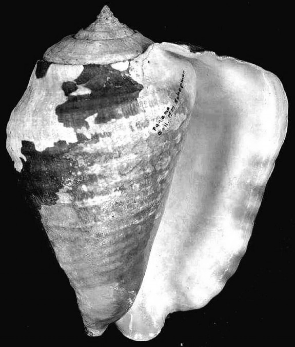 The underside view of the seashell Titanostrombus galeatus (Swainson, 1823)[1]; specimen from West Panama (marking written on its surface). A species found in the Sea of Cortèz, W. Mexico to N. Peru and Galápagos Islands [2]. Black and white photography extracted from color photography. Larger than the original.